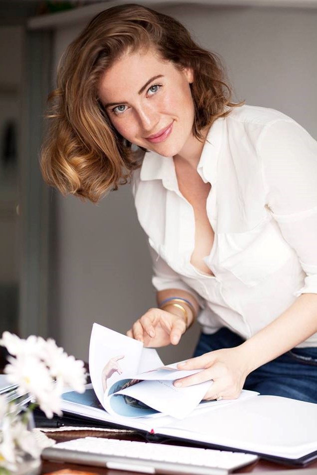 Victoria Janashvili in her NYC apartment, 2015